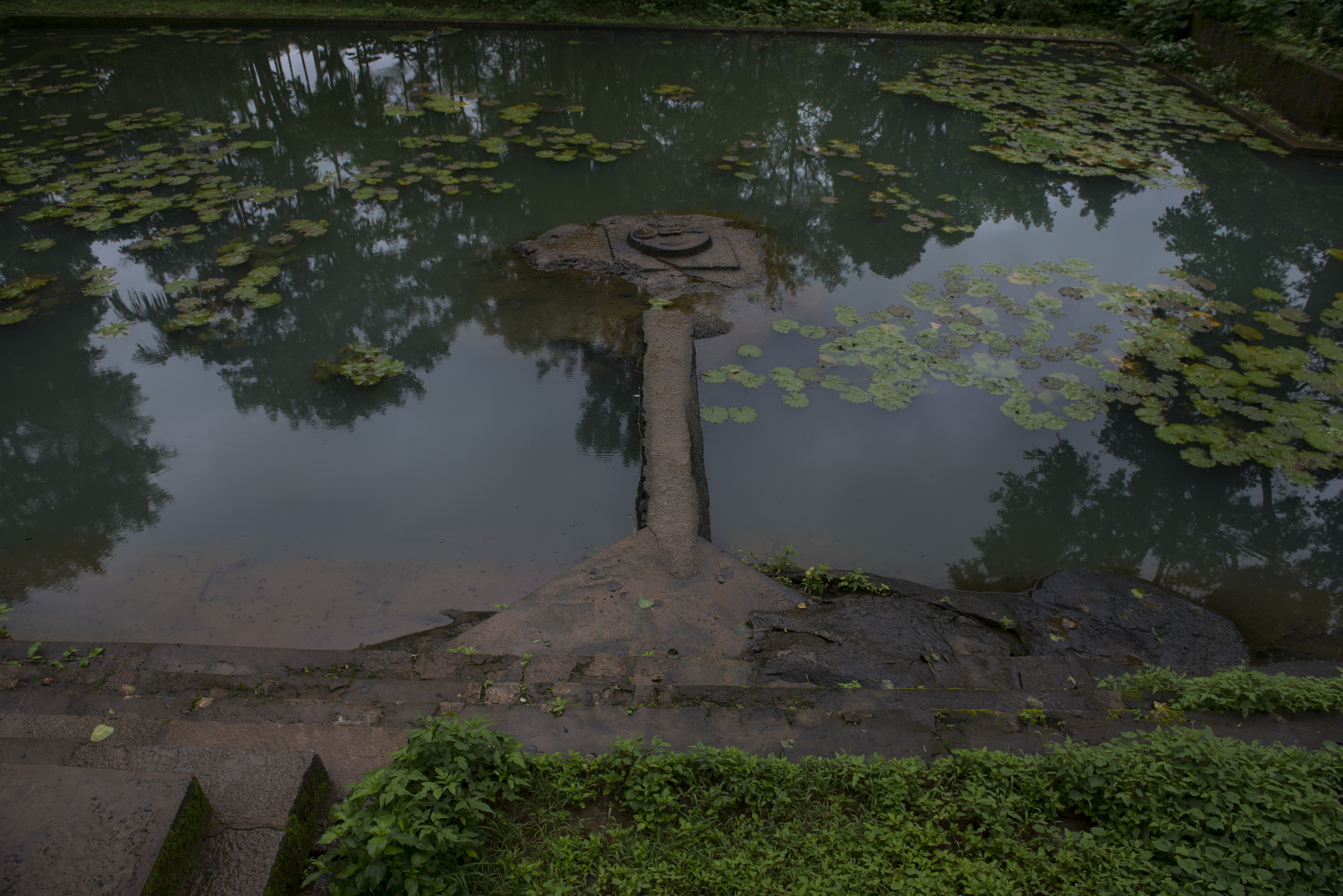 Panchatheertham is the holy temple pond.